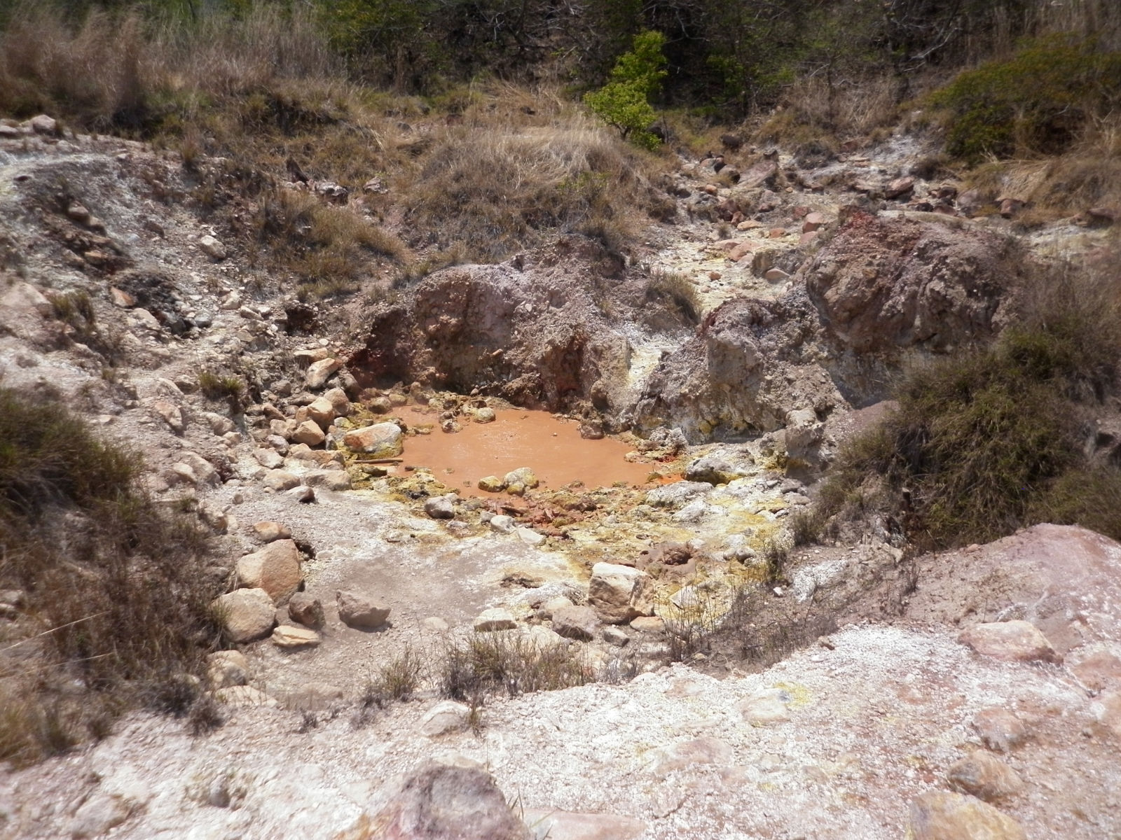 los ausoles, Ahuachapan, El salvador